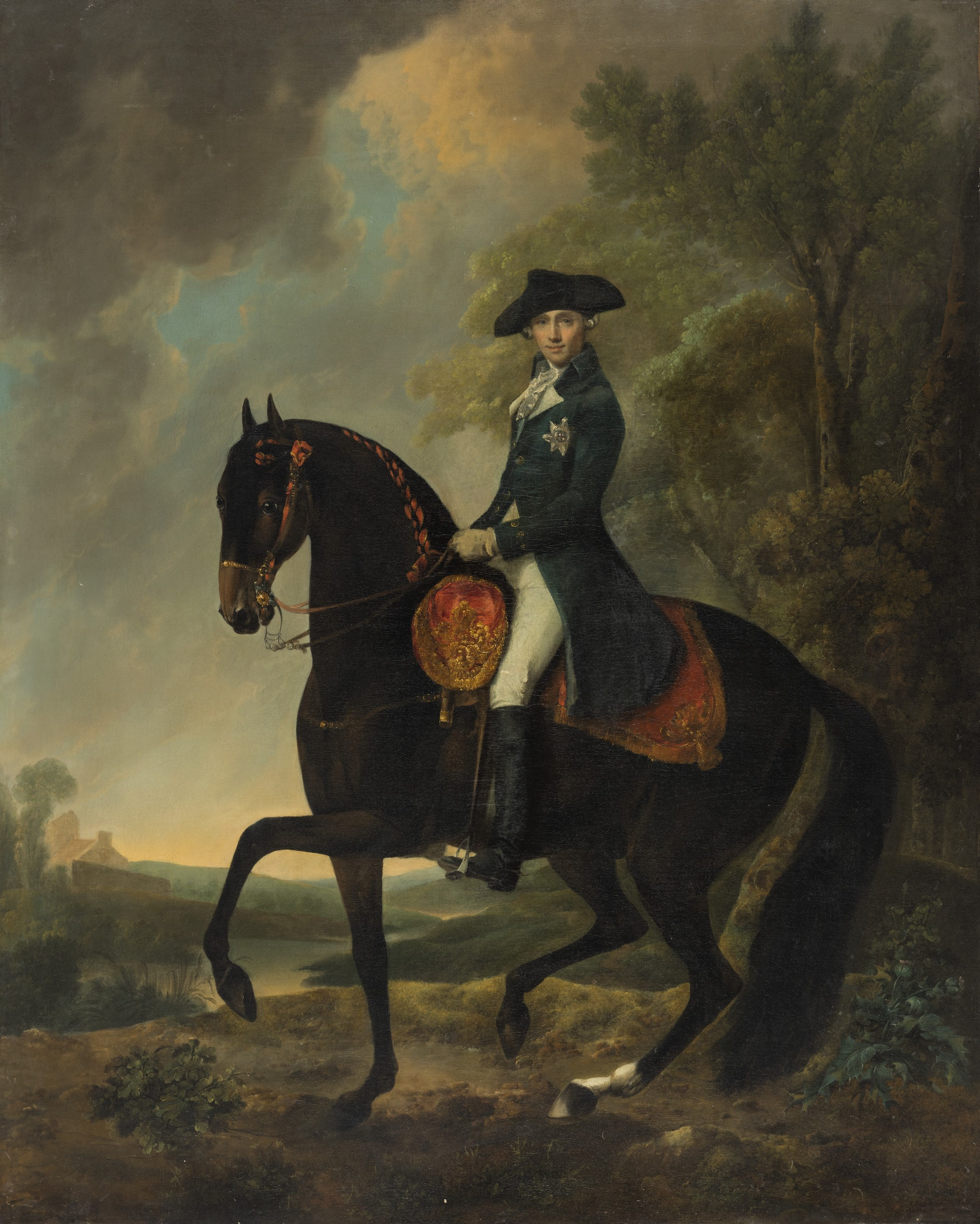 Equestrian portrait of Henry, Duke of Cumberland and Strathearn (1745-1790) by David Morier (1705-1770), painted around 1765 (still with its original hand carved and gilded wooden frame). Showing the Duke with the Order of the Garter on his coat. Measurements: 126.5cm x 101.0cm. Provenance: Most probably the family of Henry, Duke of Cumberland. In 1960 with Needham's Antiques Inc., New York who sold it to a private collection in the United States of America where it was until its sale through Christie's, New York on 19th May 1993. On 19th May 1993 sold by Christie's New York, Park Avenue in sale "7680 - Important and fine old master paintings" as lot 34 (estimate: $50'000 - $70'000) to a private collection in Switzerland.